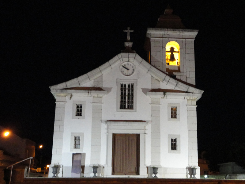 Church of Samouco at Night